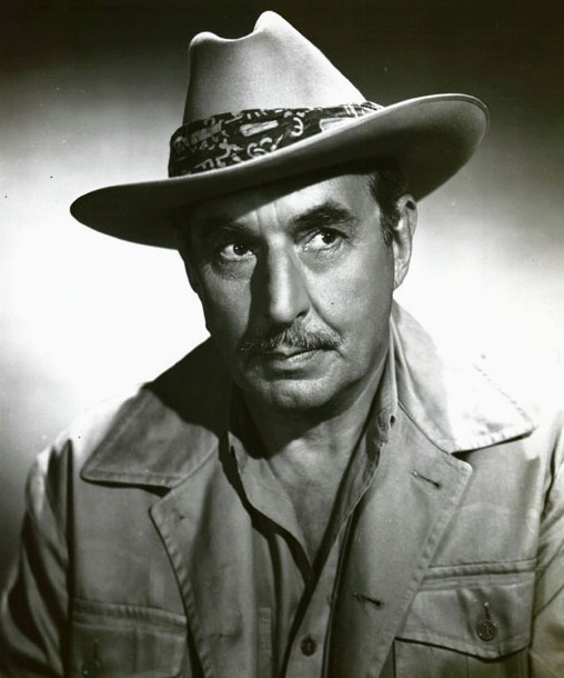 Douglass Dumbrille in Blonde Savage - publicity still